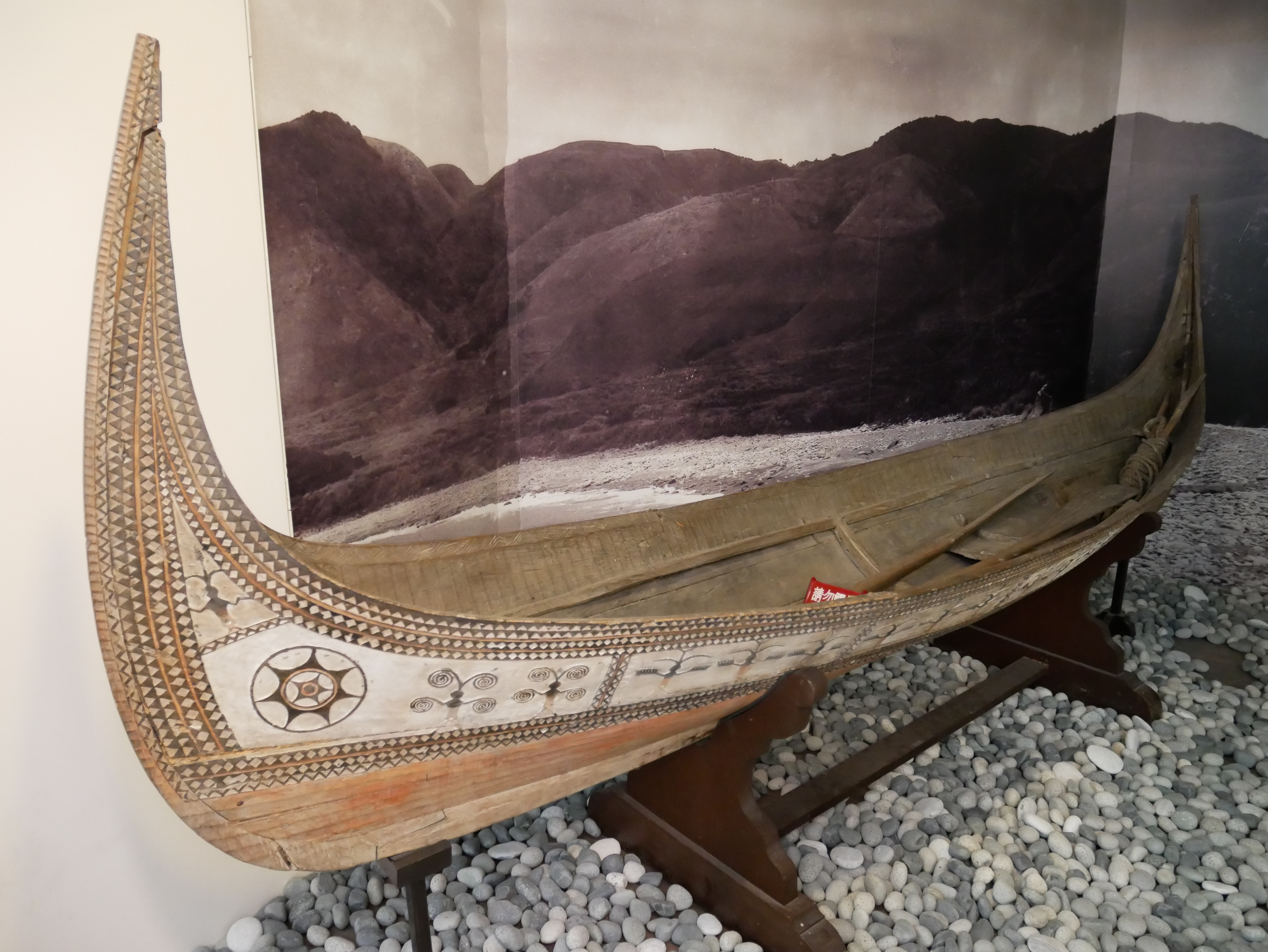 雅美族伊瓦達斯社（臺東廳臺東郡蕃地紅頭嶼イワタス社）拼板舟（昭和四年（1929年）4月入藏臺北帝國大學），臺北市大安區學府次分區學府里